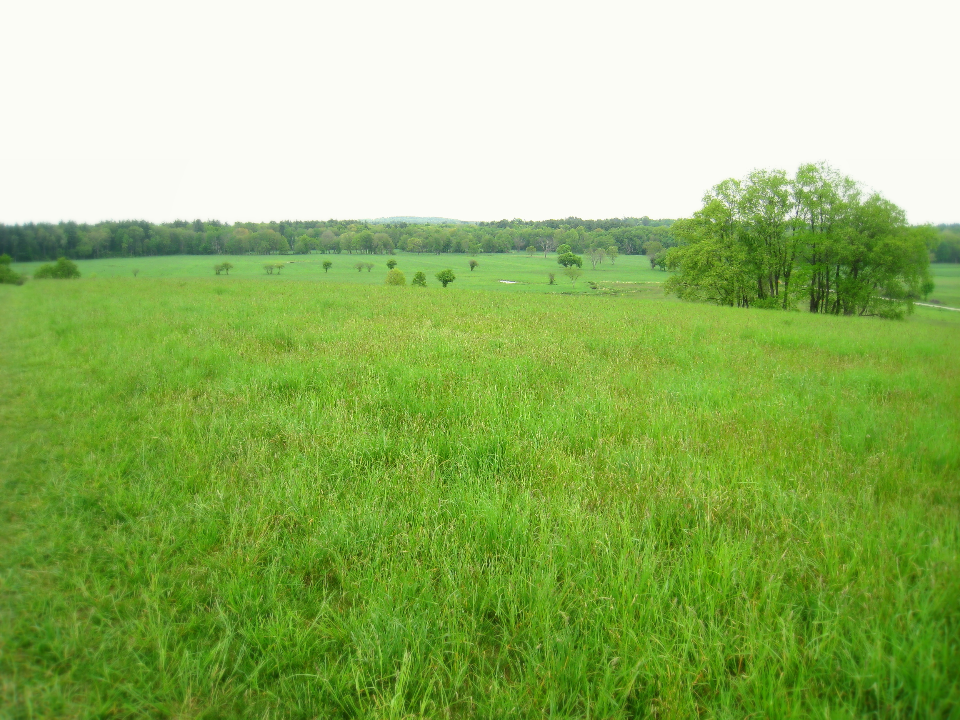 Dexter Drumlin, Lancaster, Massachusetts, USA. The drumlin is owned and managed by the Trustees of Reservations; this view is from atop the drumlin.